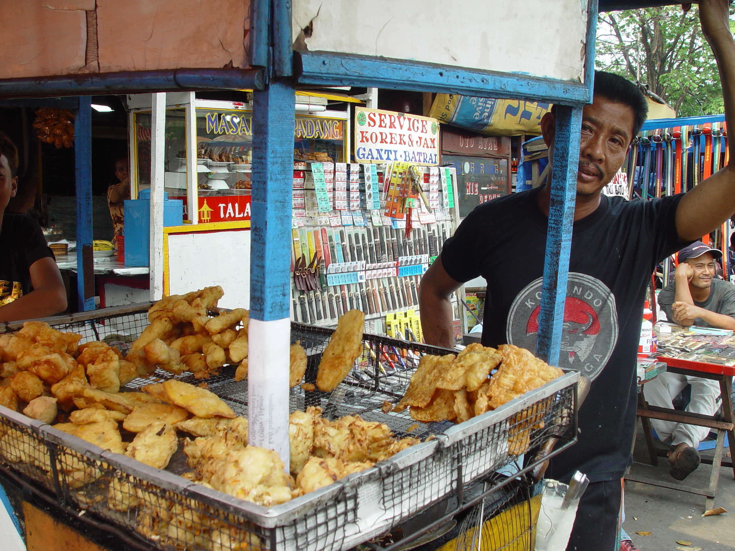 Mall cultural in Jakarta, Indonesia.